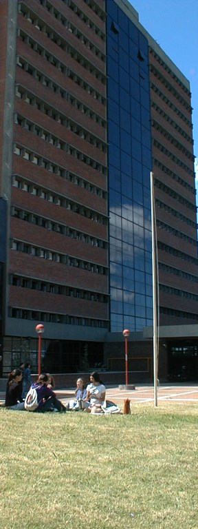 Facultad de Ciencias (Faculty of Sciences), Universidad de la República, Uruguay.